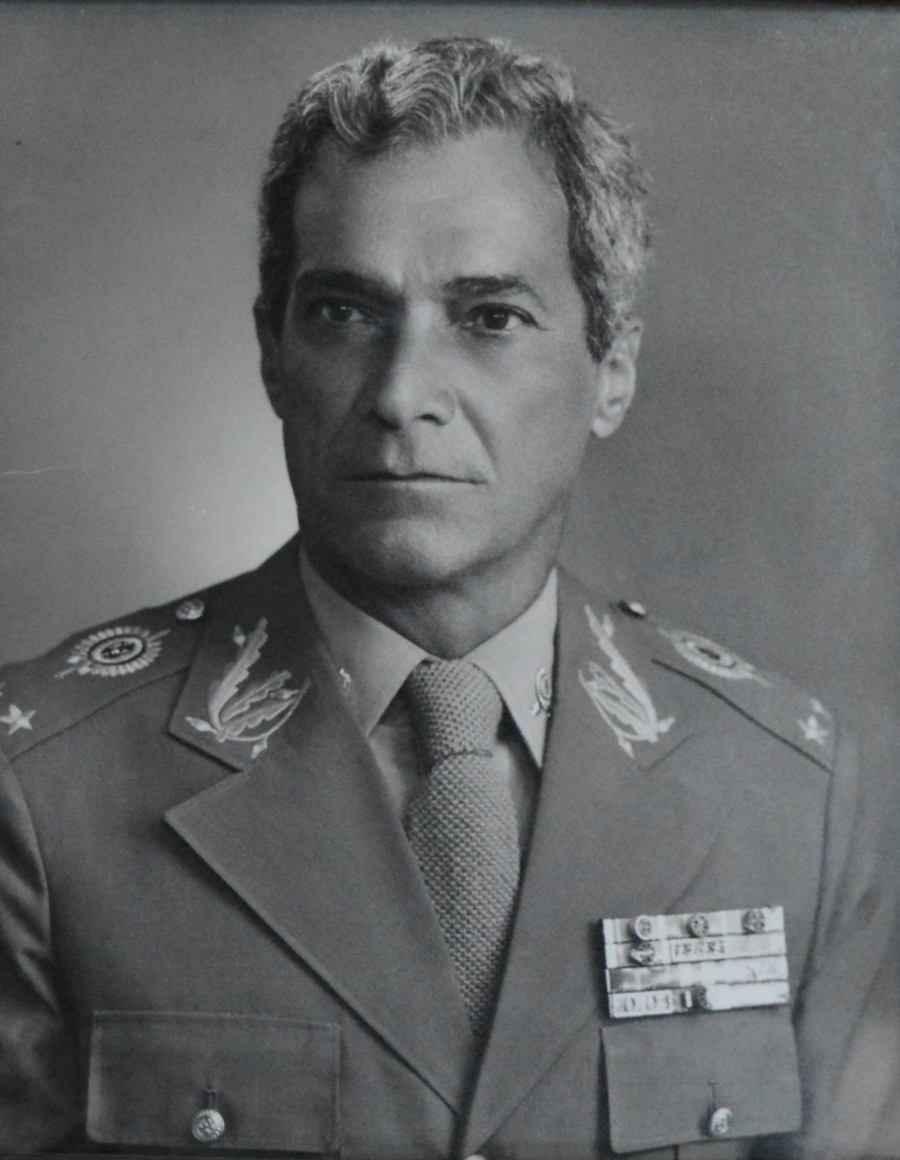 Gen Zenildo Gonzaga Zoroastro de Lucena, Brazilian Army.